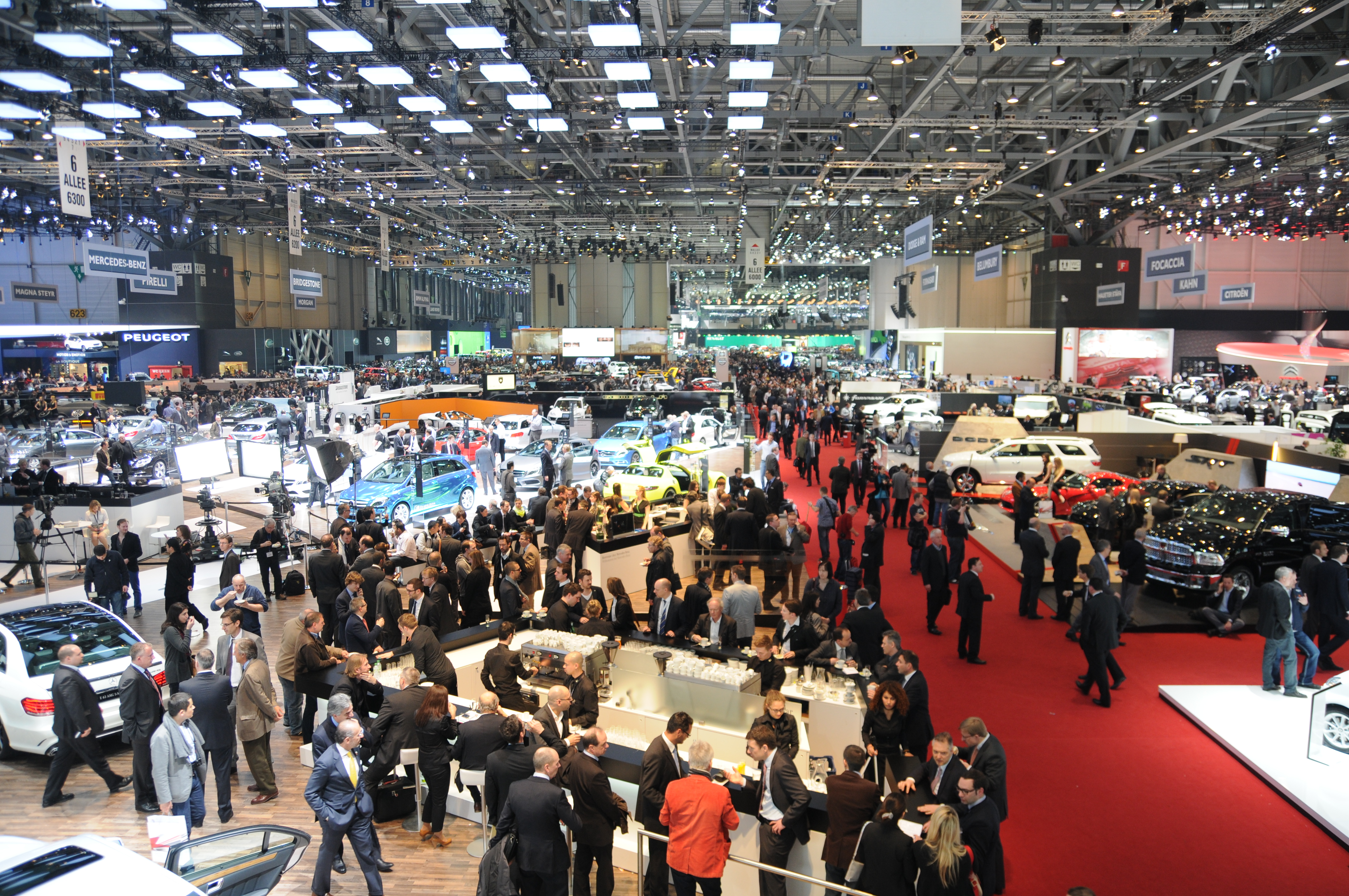 Geneva Motor Show 2013 (photos taken on the first press day)